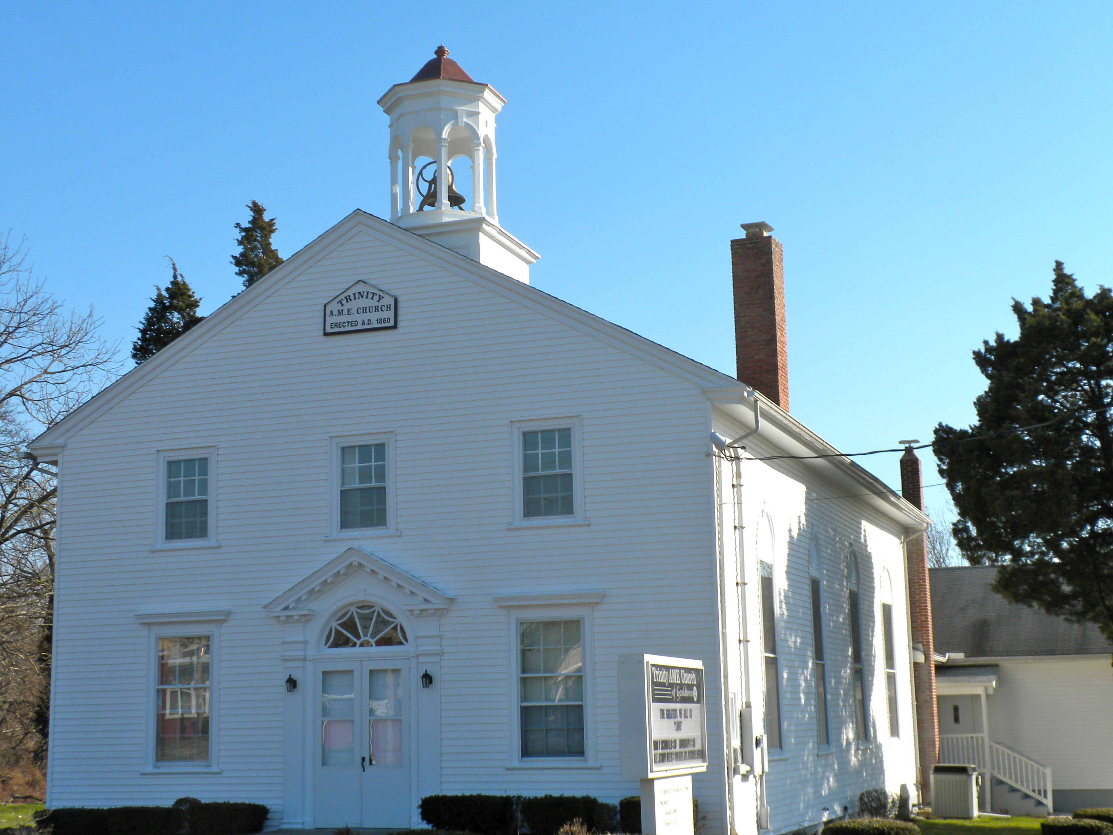 Trinity African Methodist Episcopal Church on the NRHP since September 29, 1995 at Bridgeton-Milltown Rd. (NJ 49), E of Woodruff Rd. (Co. Rd. 553), Fairfield Twp., Cumberland County, NJ in Gouldtown, a "town" of about 4 buildings between Bridgeton and Millville.